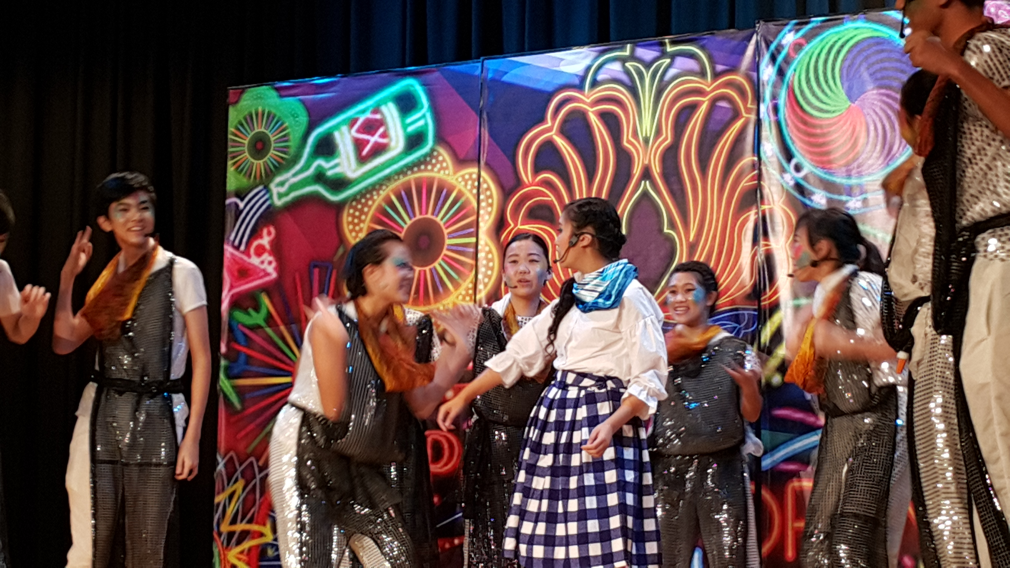 A shot of the musical "Extravaganza", which performed in HKUGAC 10th Anniversary on 5th and 6th Dec 2015 中文（香港）: 港大同學會書院於2015年12月慶祝10周年校慶時的音樂劇之劇照